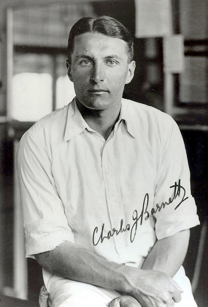 Sport. Cricket. pic: 1934. Charlie Barnett, born 1910, Gloucestershire and England batsman. He played for Gloucestershire 1927-1948 and for England in 20 matches 1933-1948.